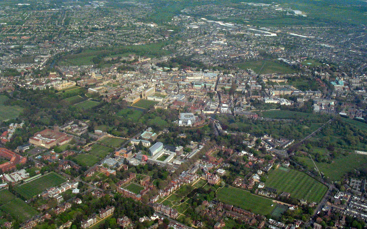 Aerial view of Cambridge city centre from the west.